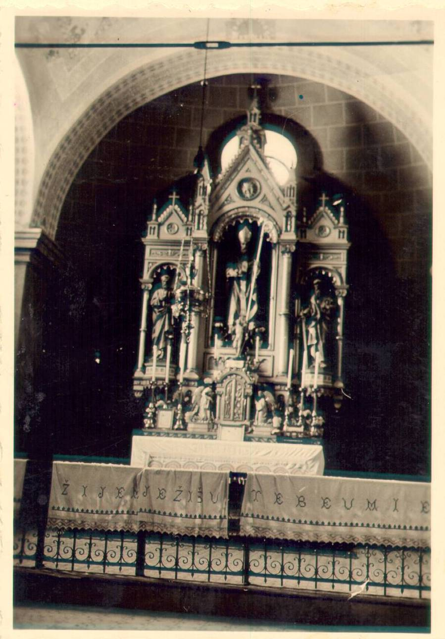 oltar